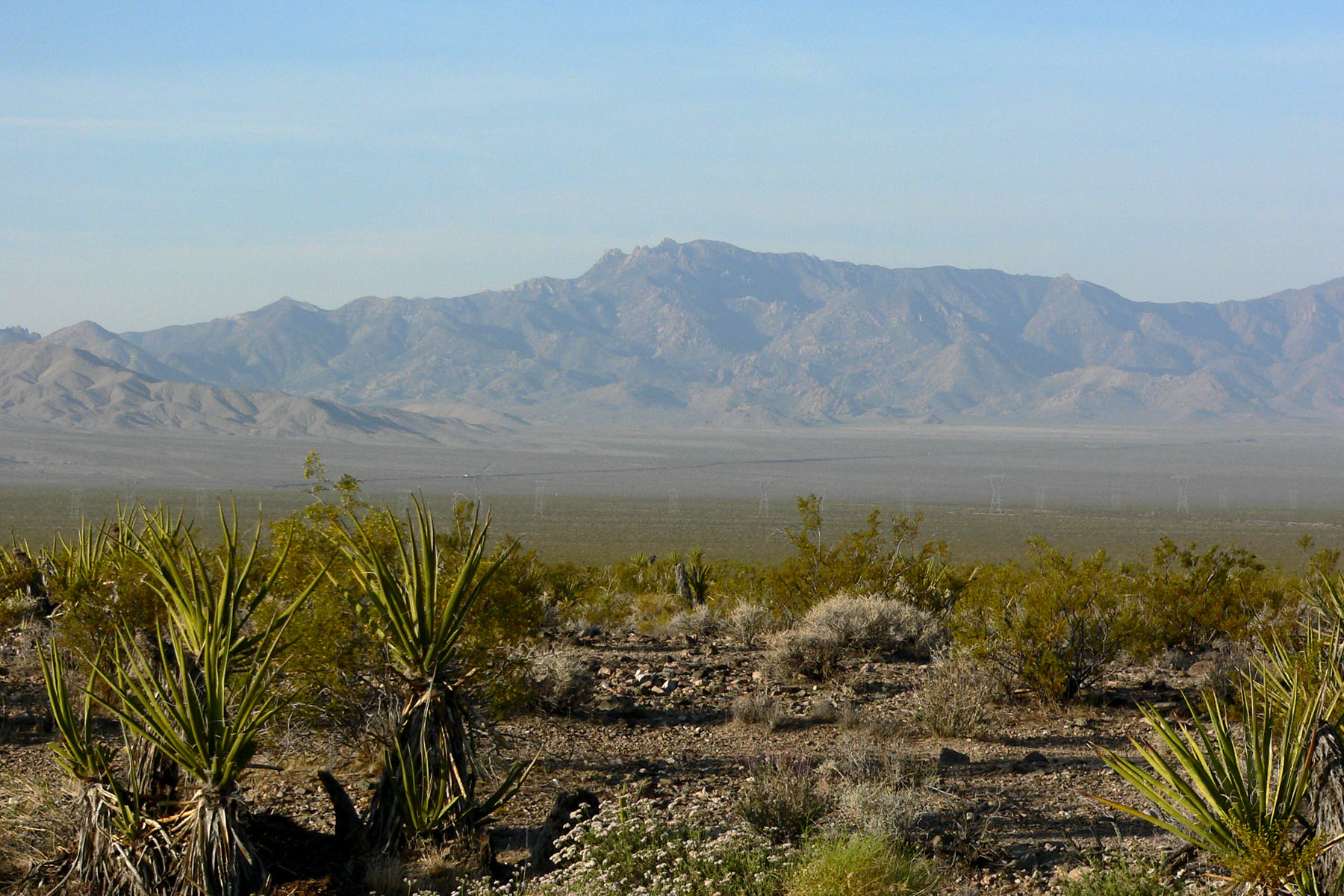 The New York Mountains seen from the Nipton Road east of Nipton, California.View looking due south, center of range. 10 to 15 miles extend northeast, (on left). The Castle Peaks subregion of the range is adjacent the Nevada border (to left). The valley east of Nipton is the southwest headwaters region of the northwest-north draining Ivanpah Valley. (to southwest Las Vegas, (with Interstate 15 in Nevada).